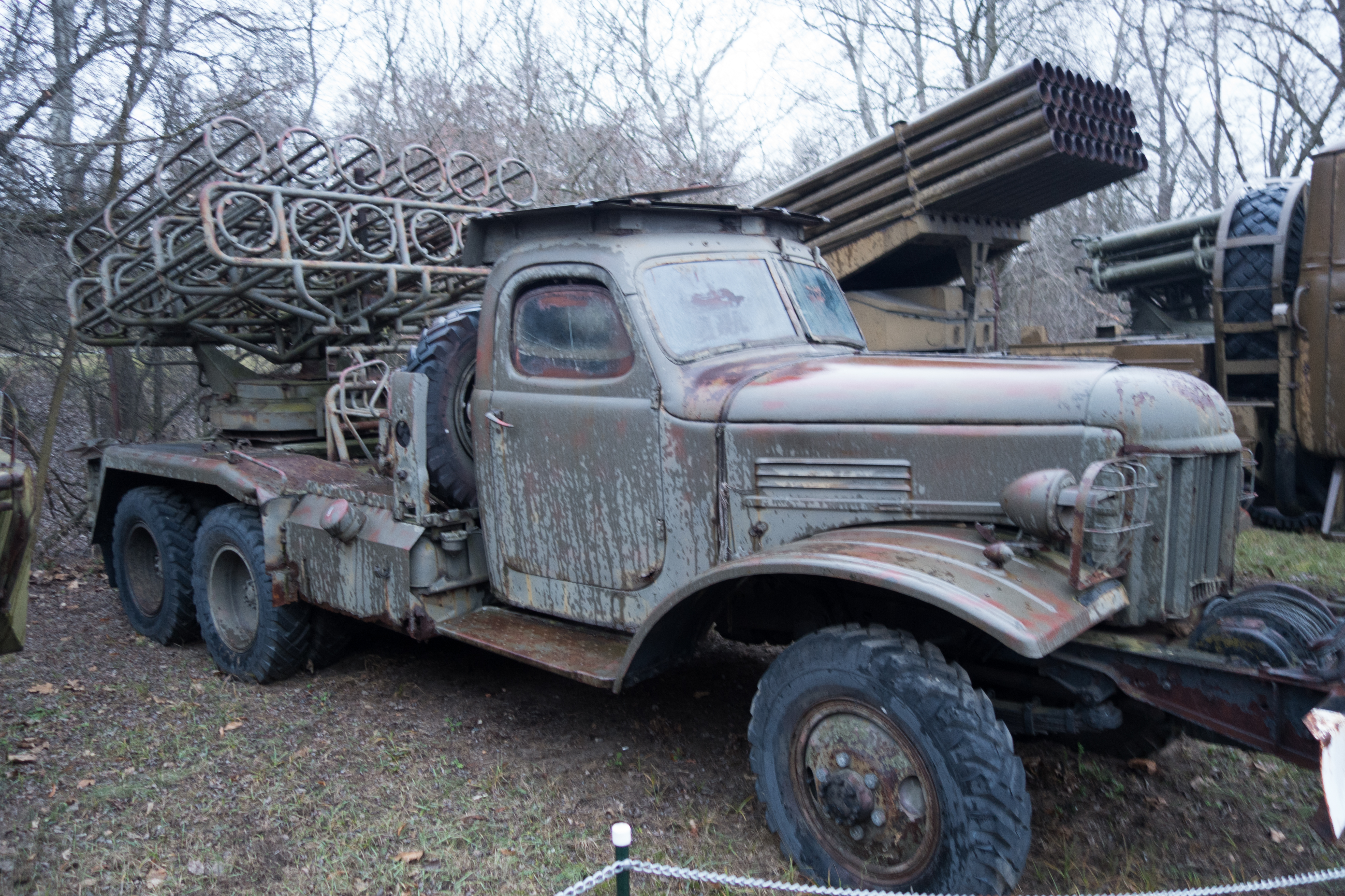 Poland 2012